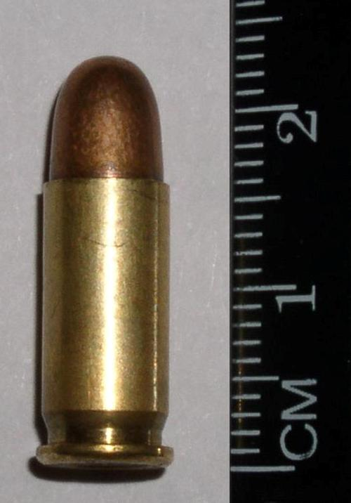 A .25 ACP round